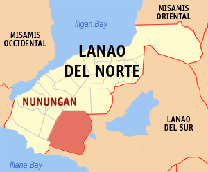 Map of the Lanao del Norte showing the location of Nunungan